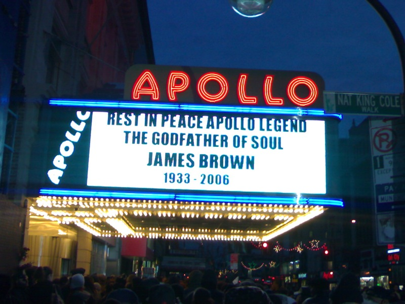 Apollo Theater sign for James Brown public memorial service, December 28, 2006